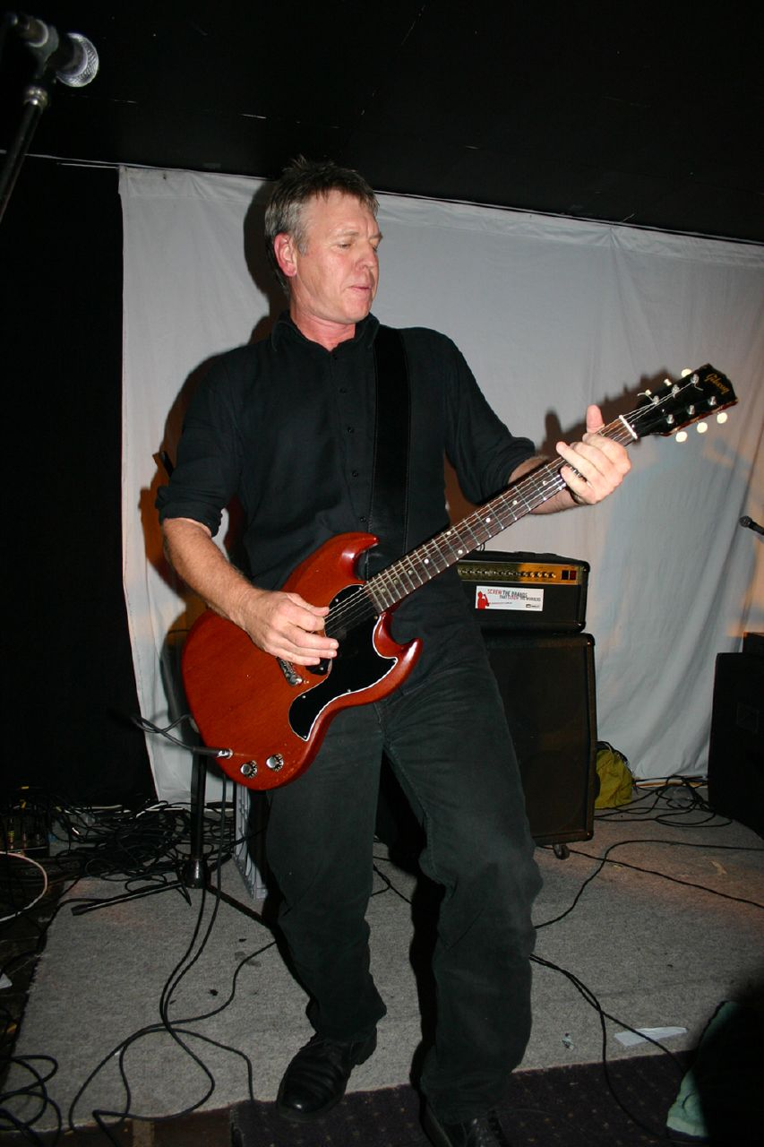 Martin Rotsey of the Ghostwriters plays at Souths Leagues Club at West End Brisbane, photo taken in the early hours 17th June 2007. Martin played guitair for Midnight Oil who were a very popular band worldwide in the eighties and nineties.